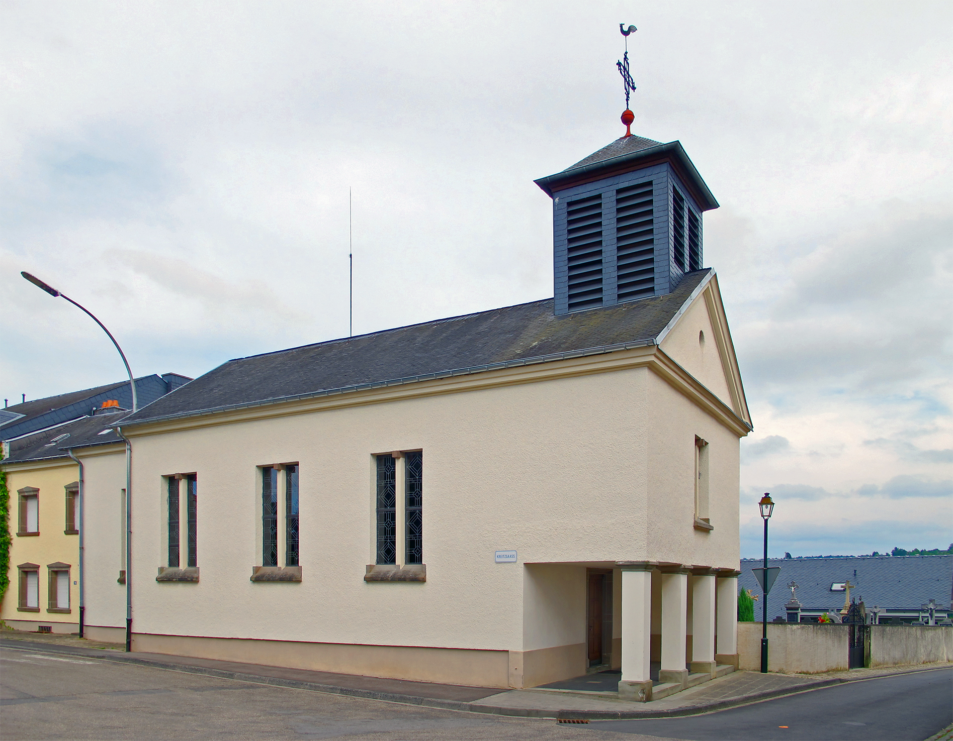 Chapel of Wormeldange-Haut, Luxembourg